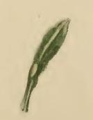 Stainton’s Natural History of the Tineina (1855–1873): Bucculatrix gnaphaliella - leaf of Gnaphalium arenarium with mine and cocoon